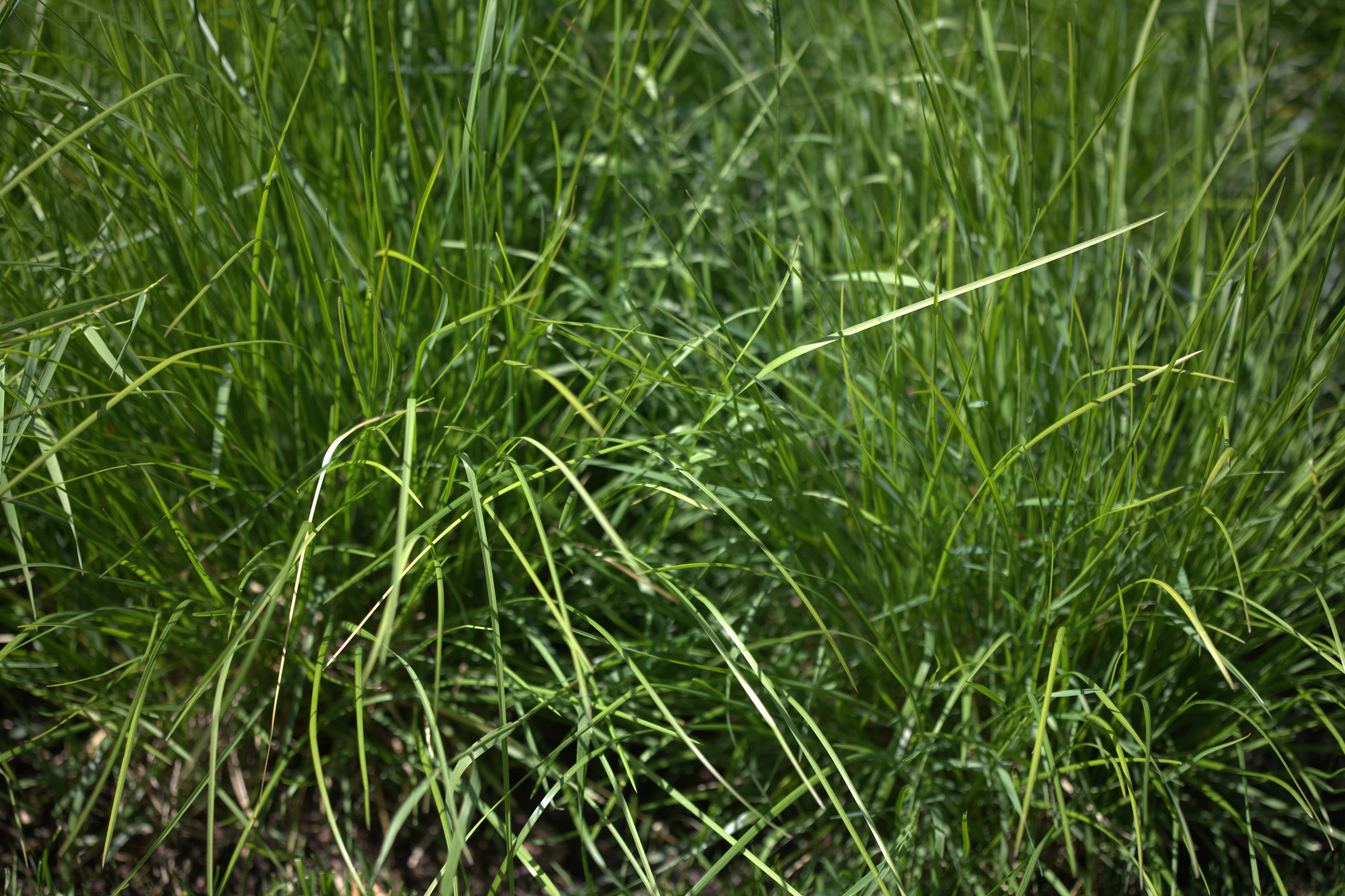 Photo taken at Gothenburg botanical garden. Specimen id: 2012-817 p G Plant collected in 2012 from a garden in Säve